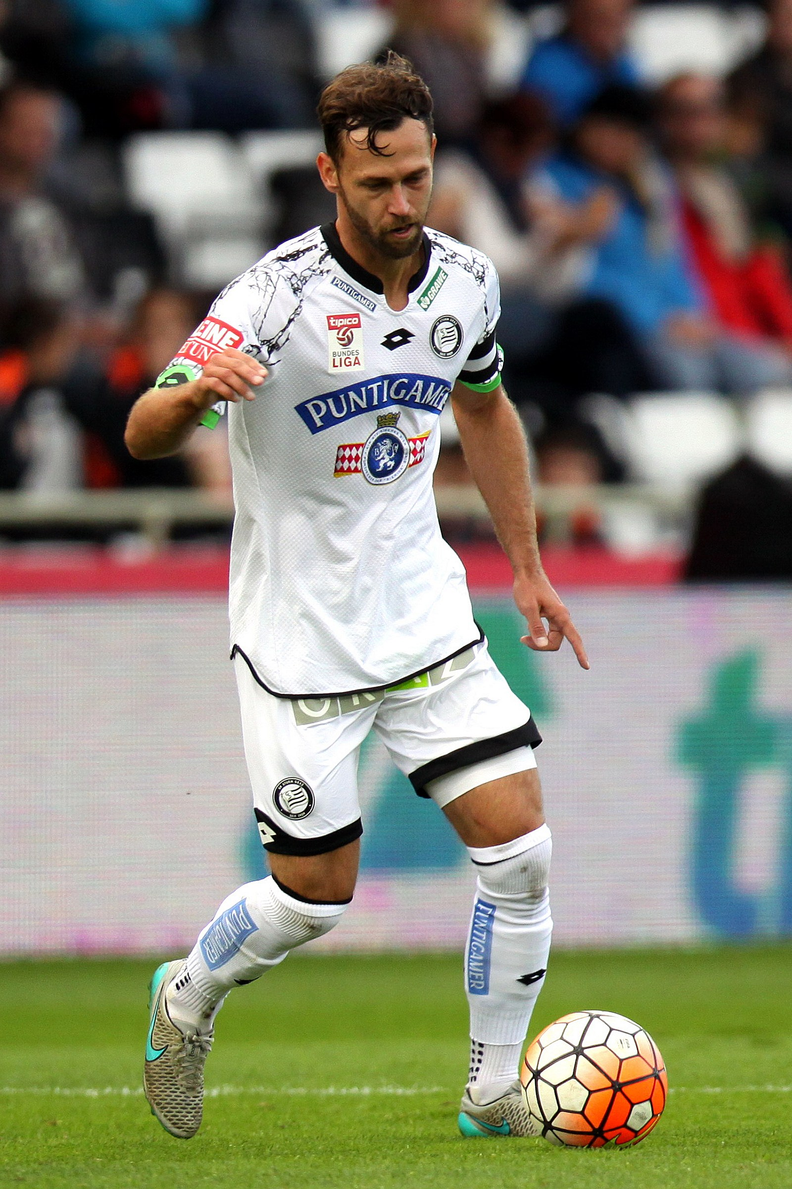 Match of the Austrian Football Bundesliga – FC Admira Wacker Mödling (red shirts) vs. SK Sturm Graz (white shirts) 0-1 (0-0) on 2015-09-27 in Bundesstadion Sudstadt – The photo shows Michael Madl